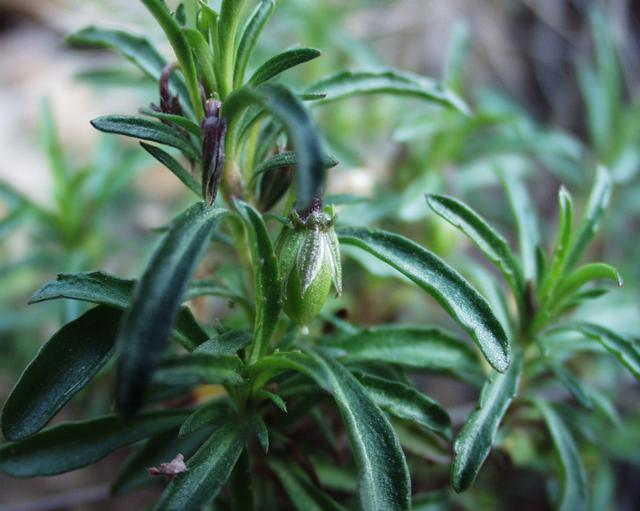 (en) Viola arborescens, a photography originating of the internet site The accord of the autor, H. Brisse, is here. (fr) Violette sous-arbustive (Viola arborescens), une photographie issue du site internet L'accord de l'auteur, H. Brisse, se situe ici.